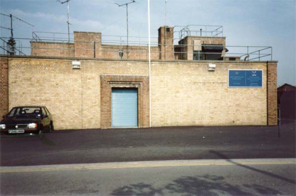 16 Group Shrewsbury, Royal Observer Corps - Group Control building.